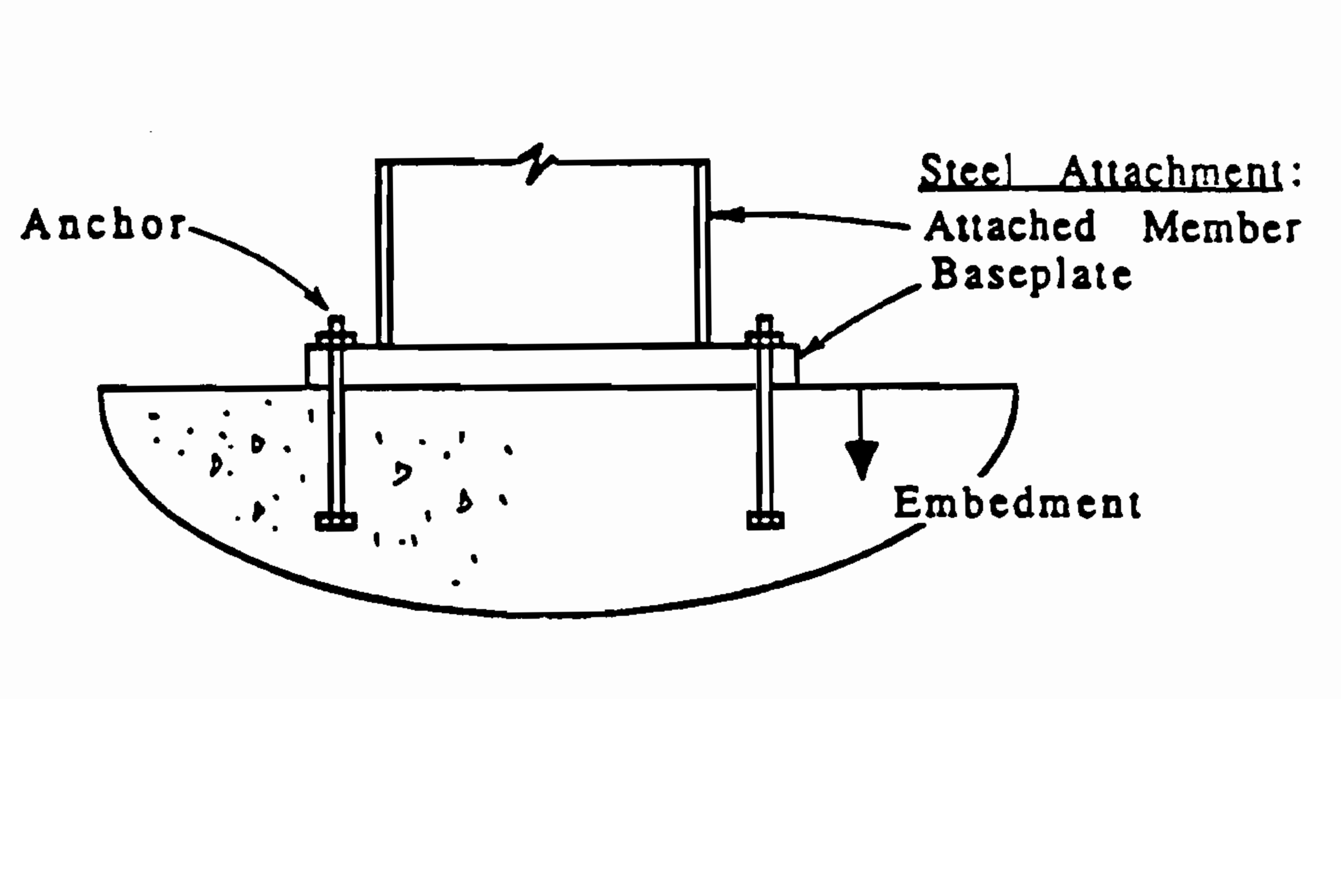 Steel to concrete connection Base Plate